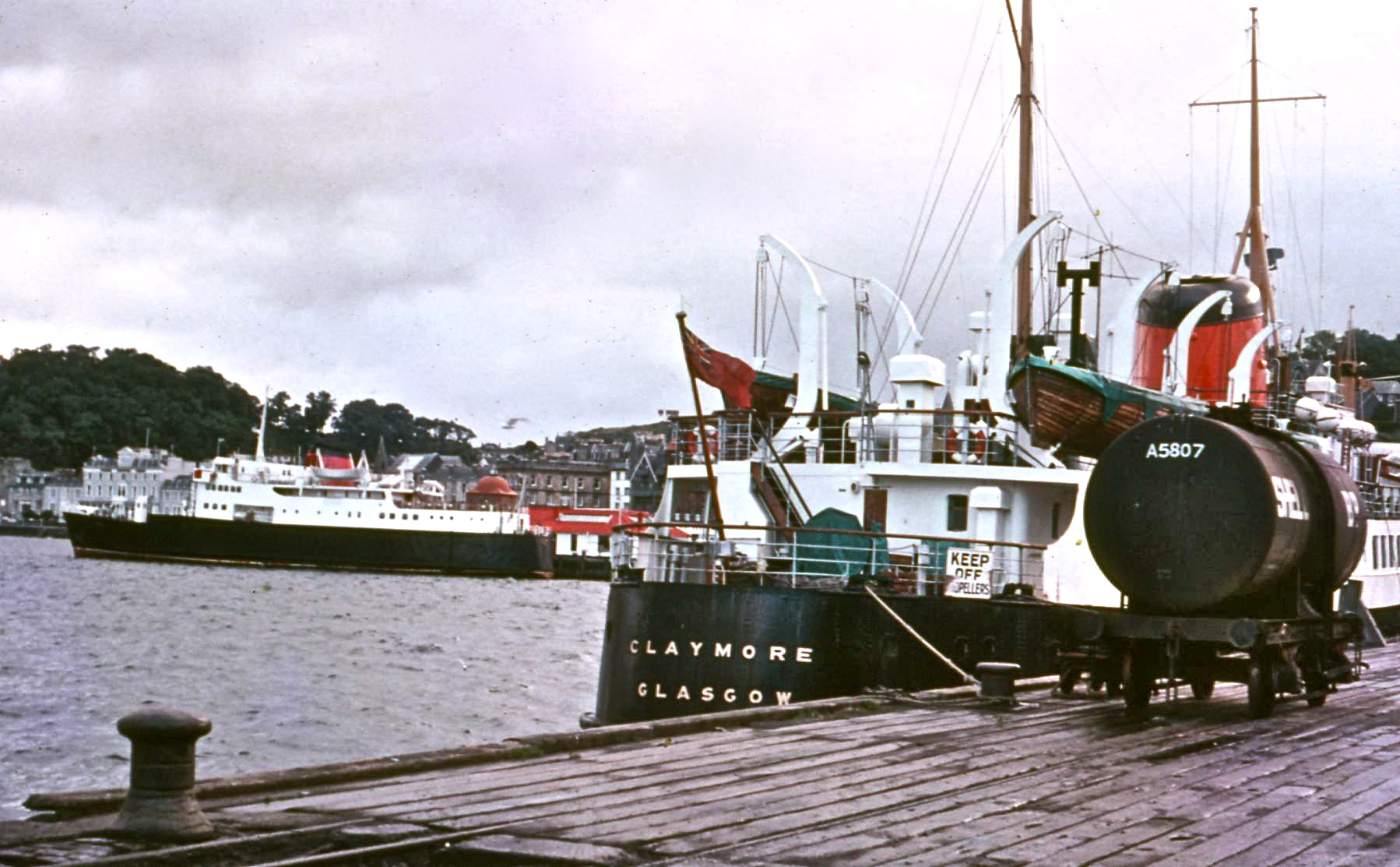 RMS Claymore at Oban railway wharf. Also Columba or one of the other 1964 MacBrayne hoist-loading car ferries